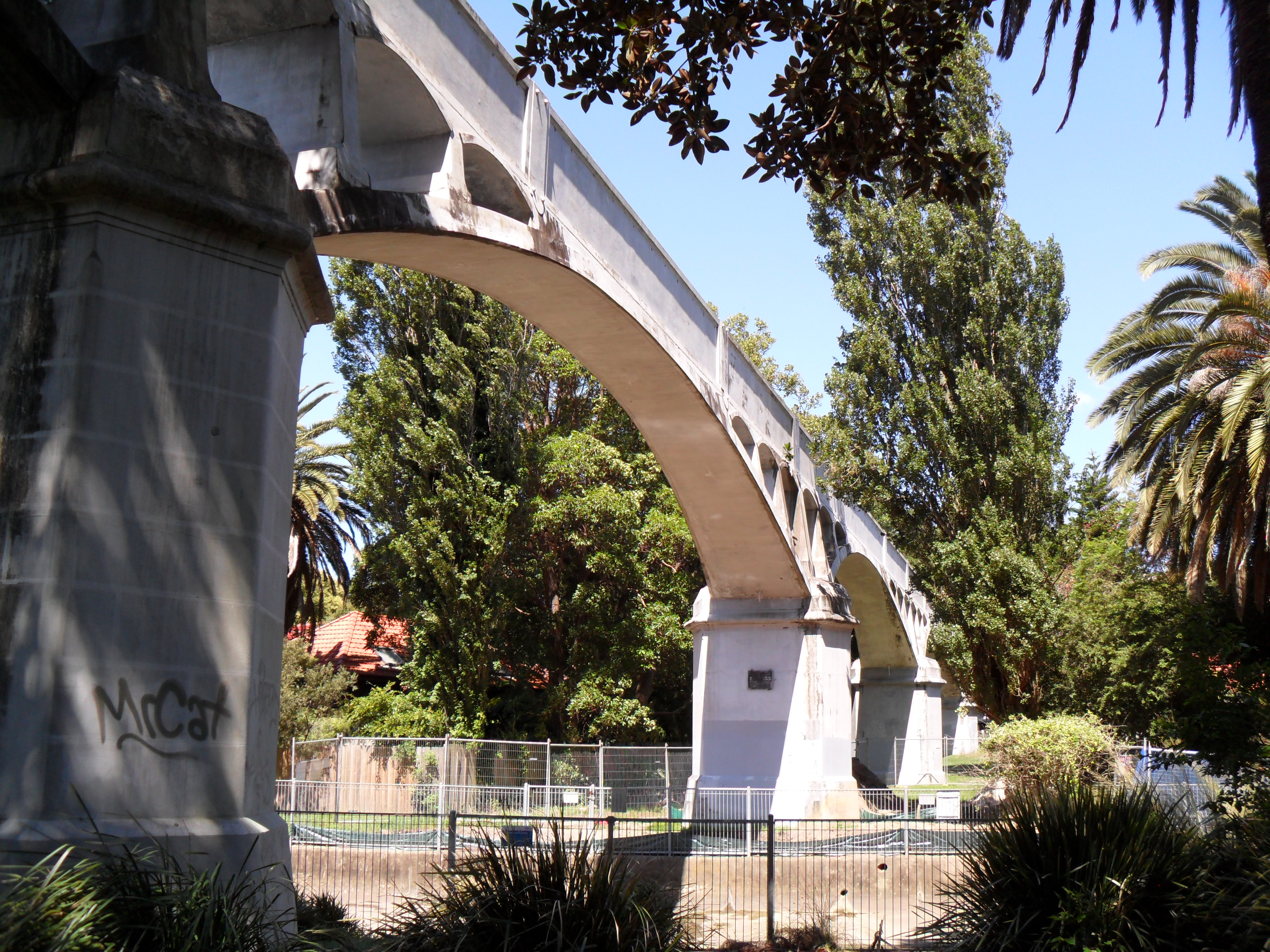 Aqueduct in Sydney's inner-west crossing Johnstons Creek